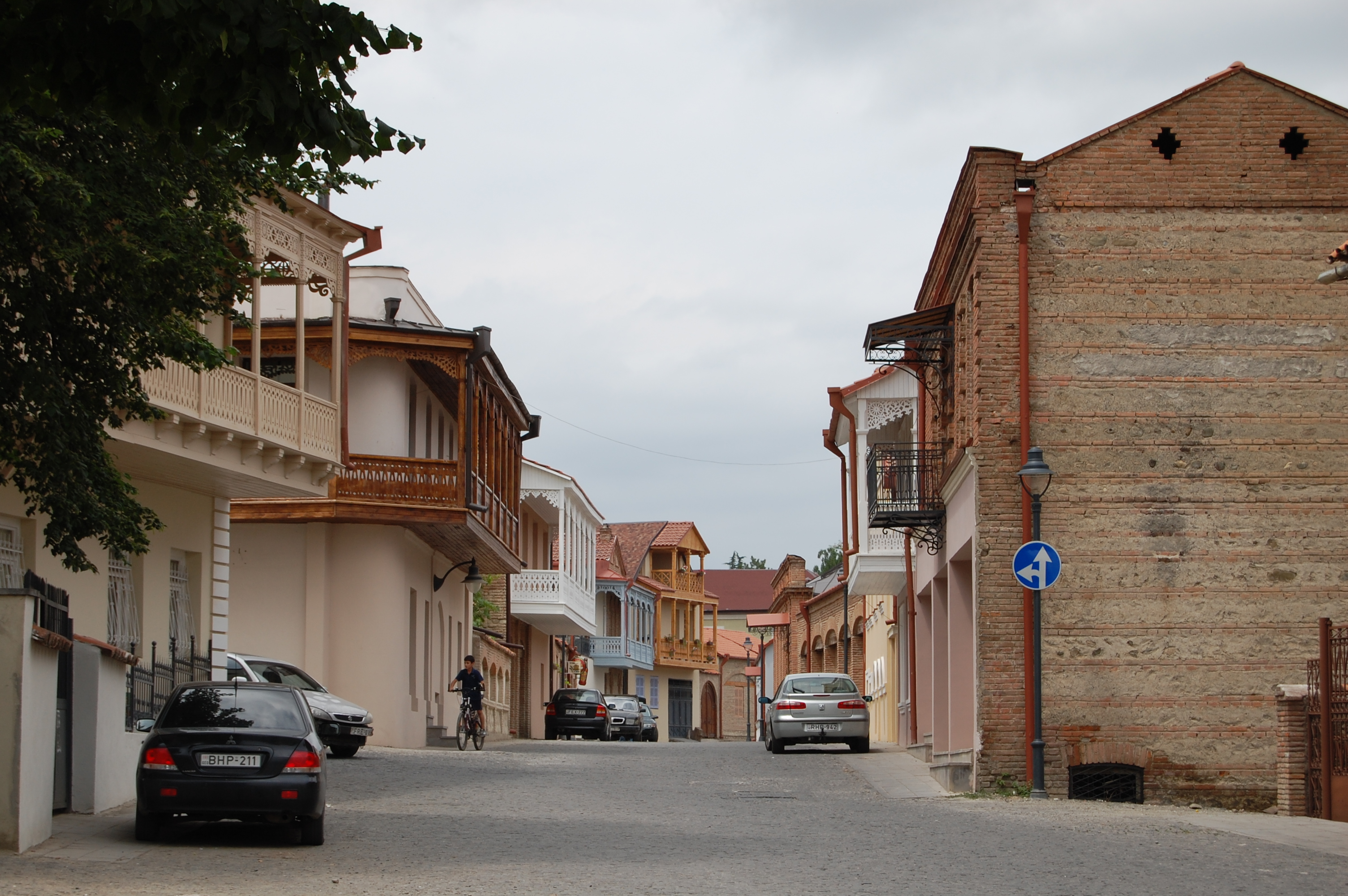 Historical part of Telavi, Georgia.